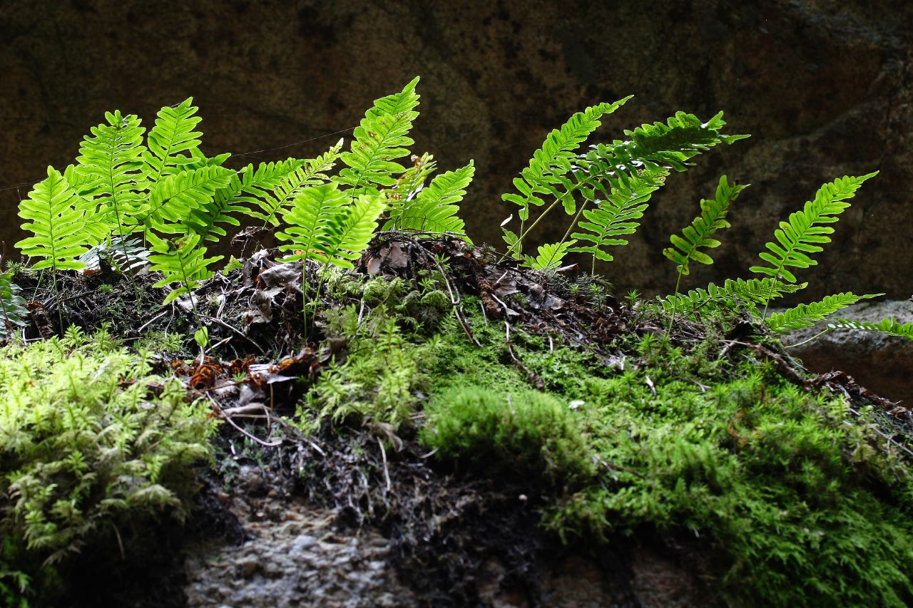 Common Polypody (Polypodium vulgare) Dysmorodrepanis 21:16, 27 May 2008 (UTC)